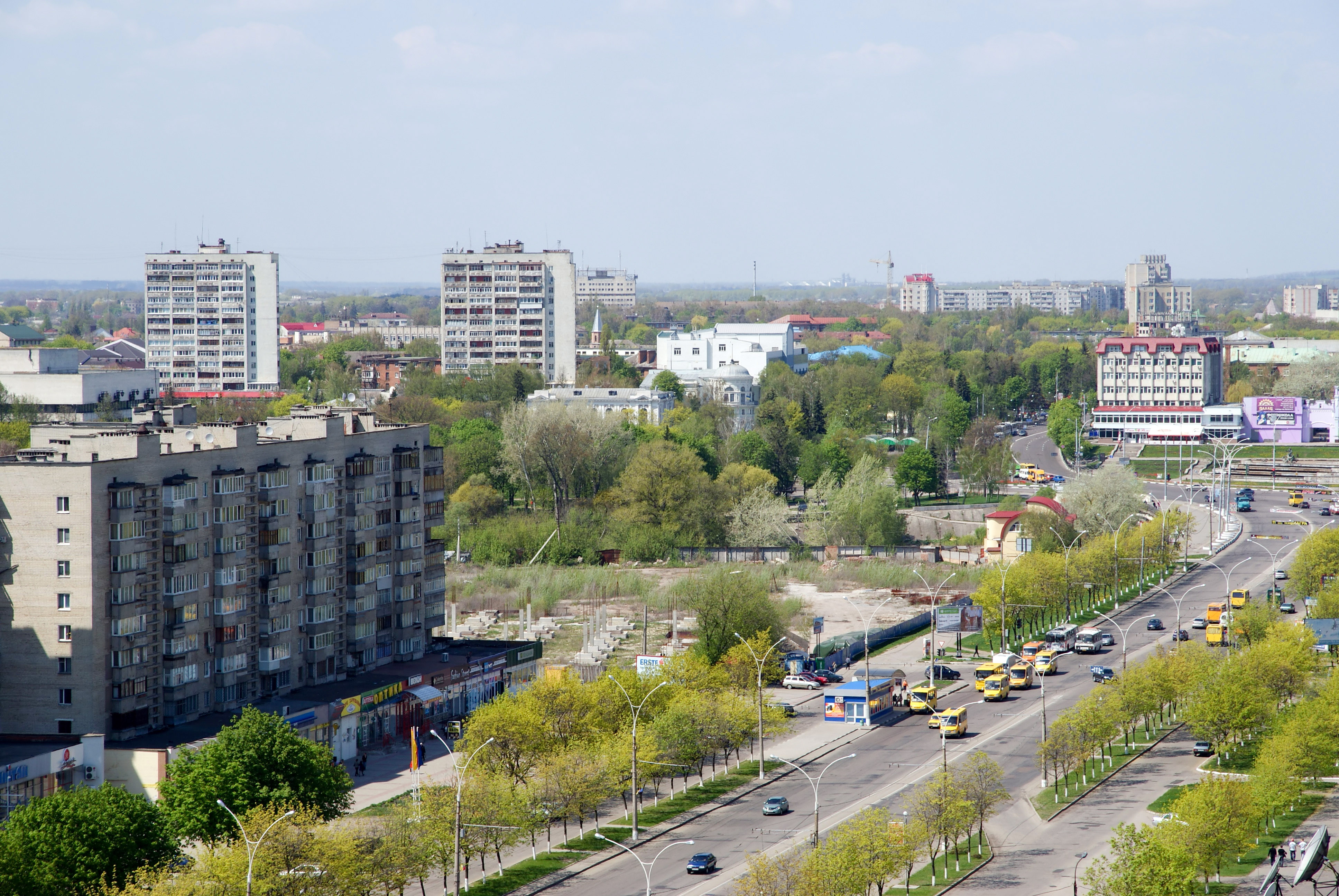 Sumy Сity Сenter